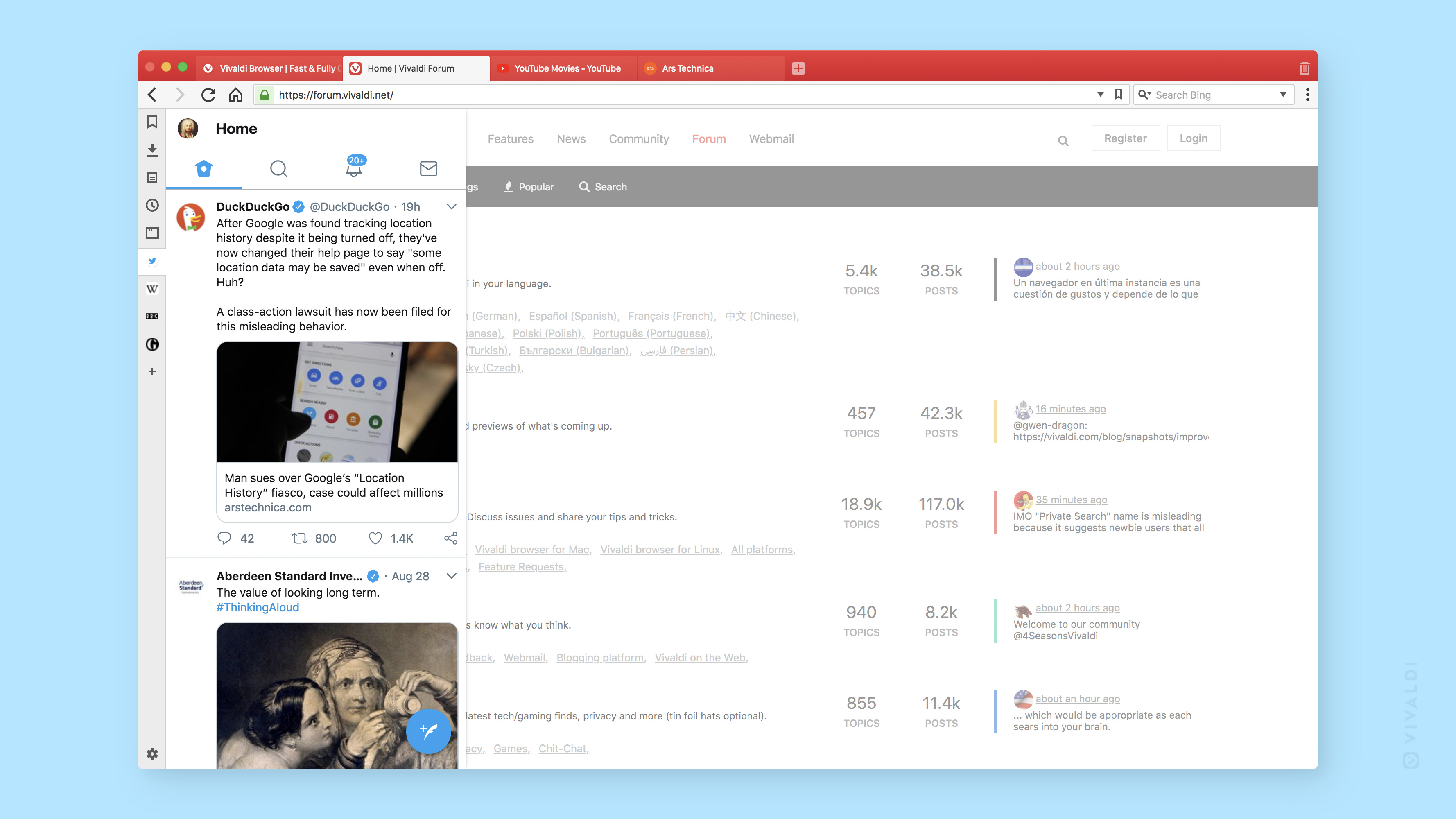 Vivaldi (web browser) screenshot